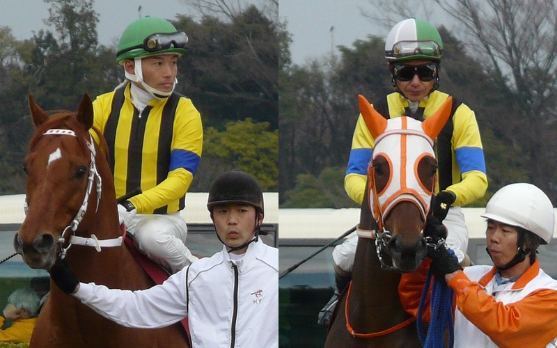 Nakayama-Racecourse12